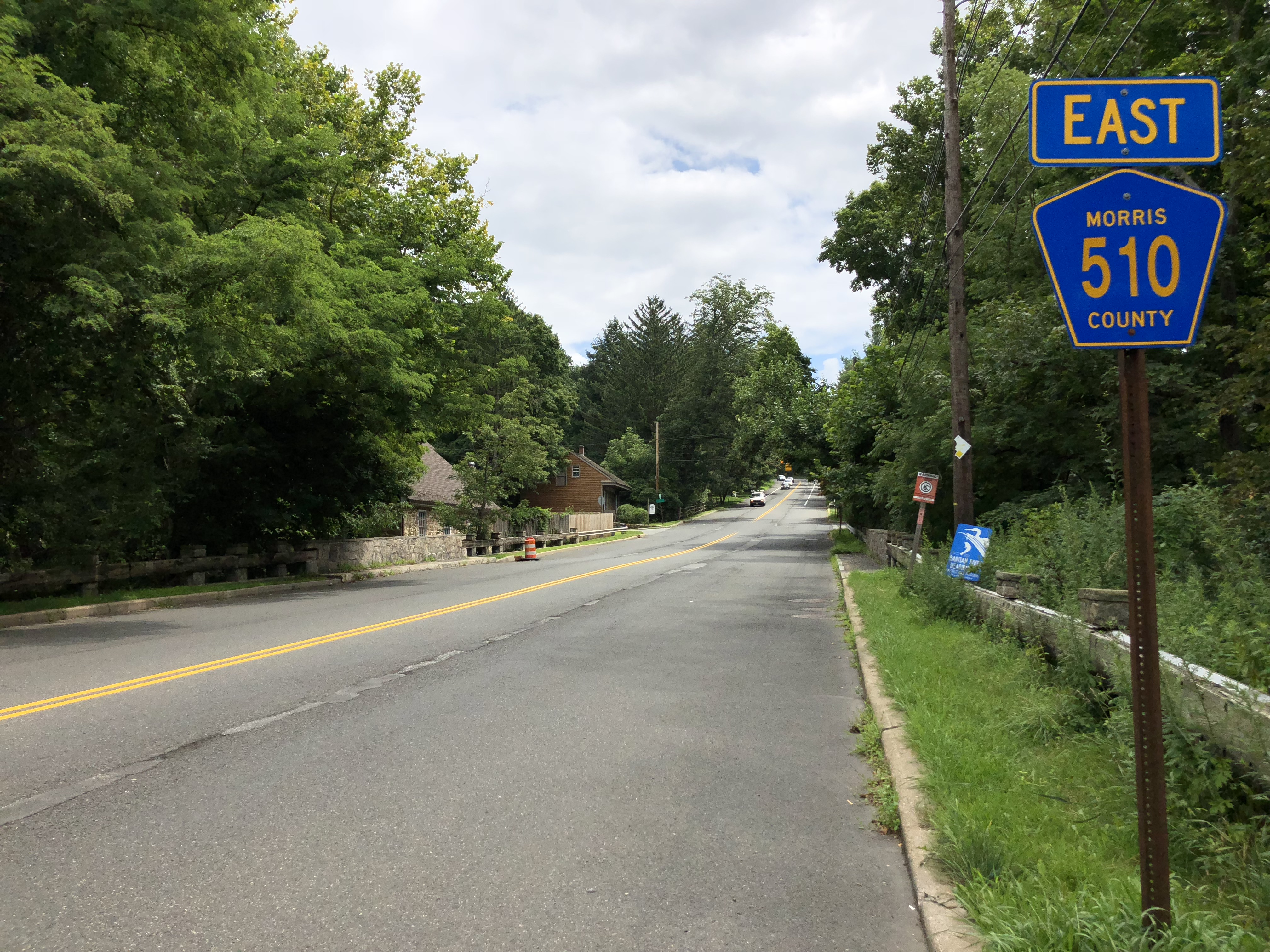 View east along Morris County Route 510 (Mendham Road) between Jane Terrace and Roxiticus Road in Mendham Township, Morris County, New Jersey